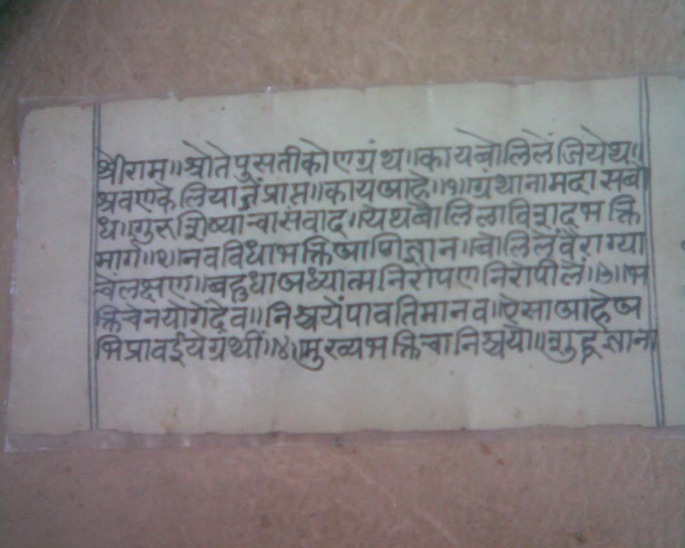 डोमगाव मठातील श्री कल्याण स्वामींच्या हस्ताक्षरातील दासबोधाची प्रत.याच दासबोधावरून श्री शंकर श्रीकृष्ण देवांनी दासबोध प्रसिद्ध केला..